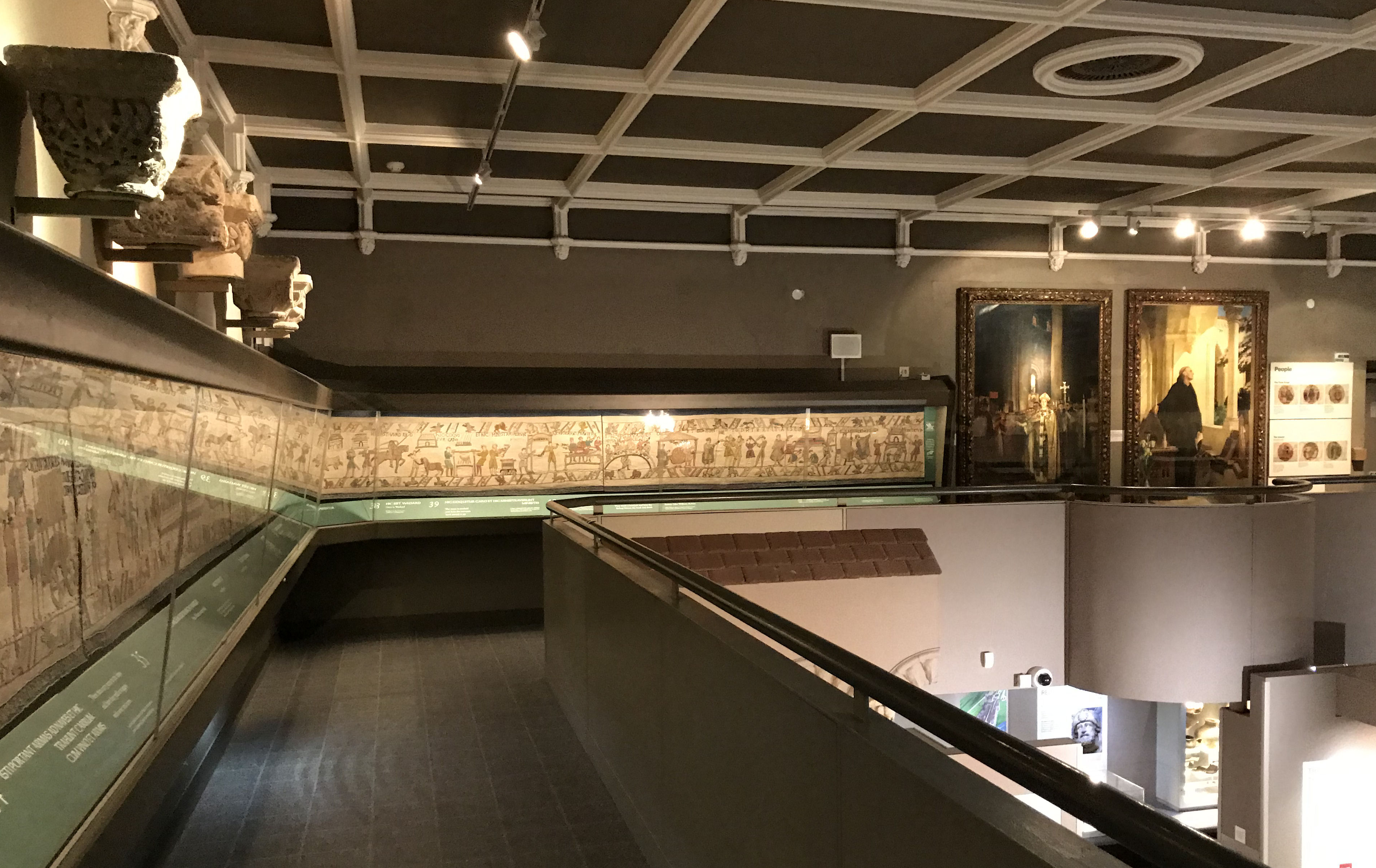 The replica of the Bayeux Tapestry in Reading Museum in Reading, Berkshire